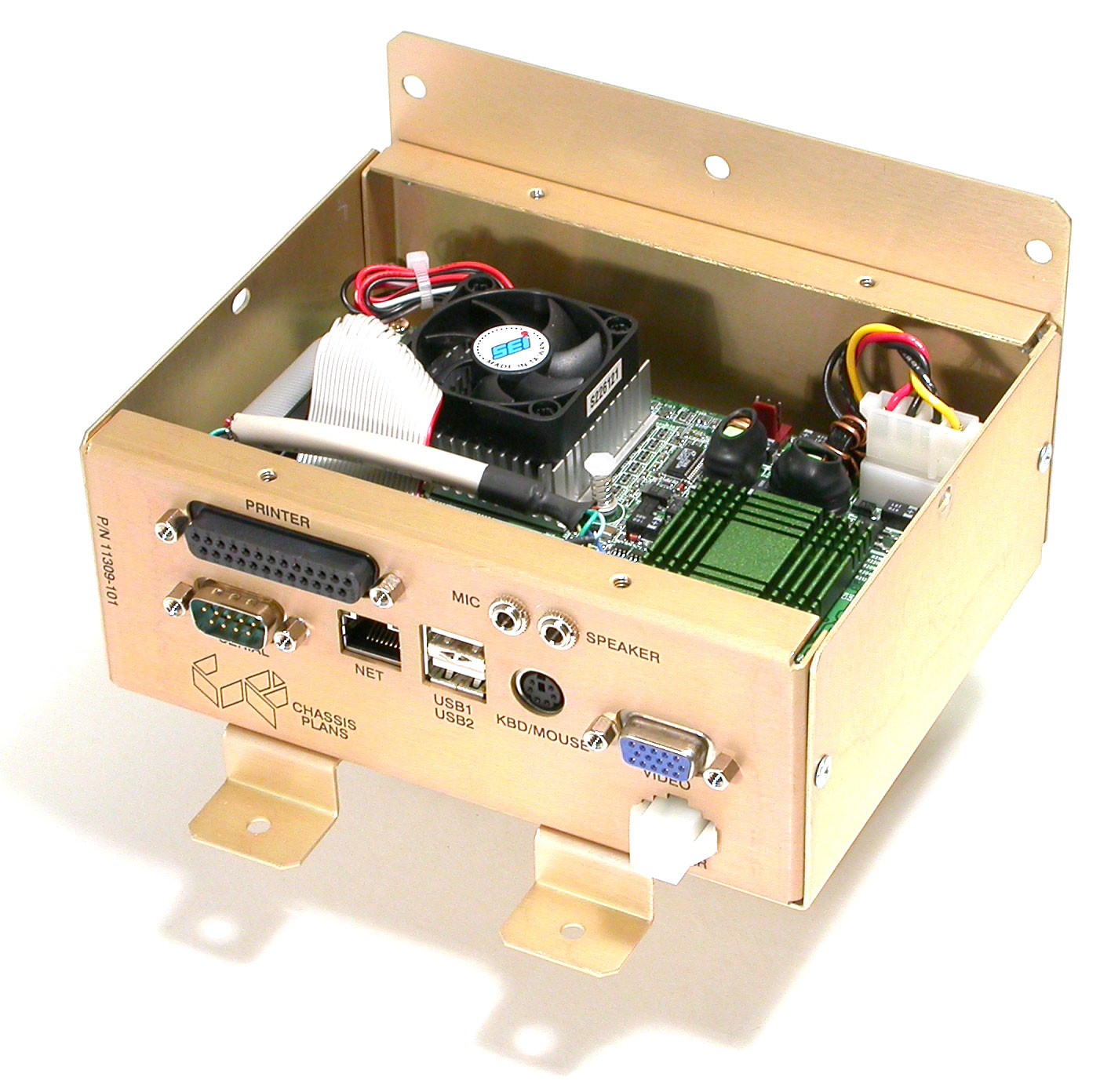 Embedded computer used to manage the Accupoll electronic voting machine. This was a small form factor VIA computing engine providing parallel and serial ports, USB, Ethernet, Keyboard/Mouse, Microphone and Speaker (for visually impaired users) and Video.